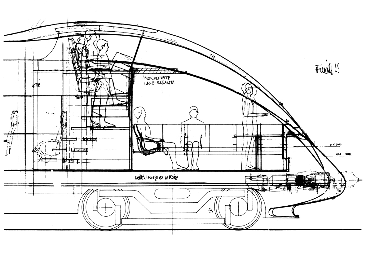 Early design drafts of the ICE-T front car. The concept included an elevated position for the engineer so that passengers could go as far as the front window of the entire train. This was originally considered the best solution, until it became clear it could not be realized due to space restraints.